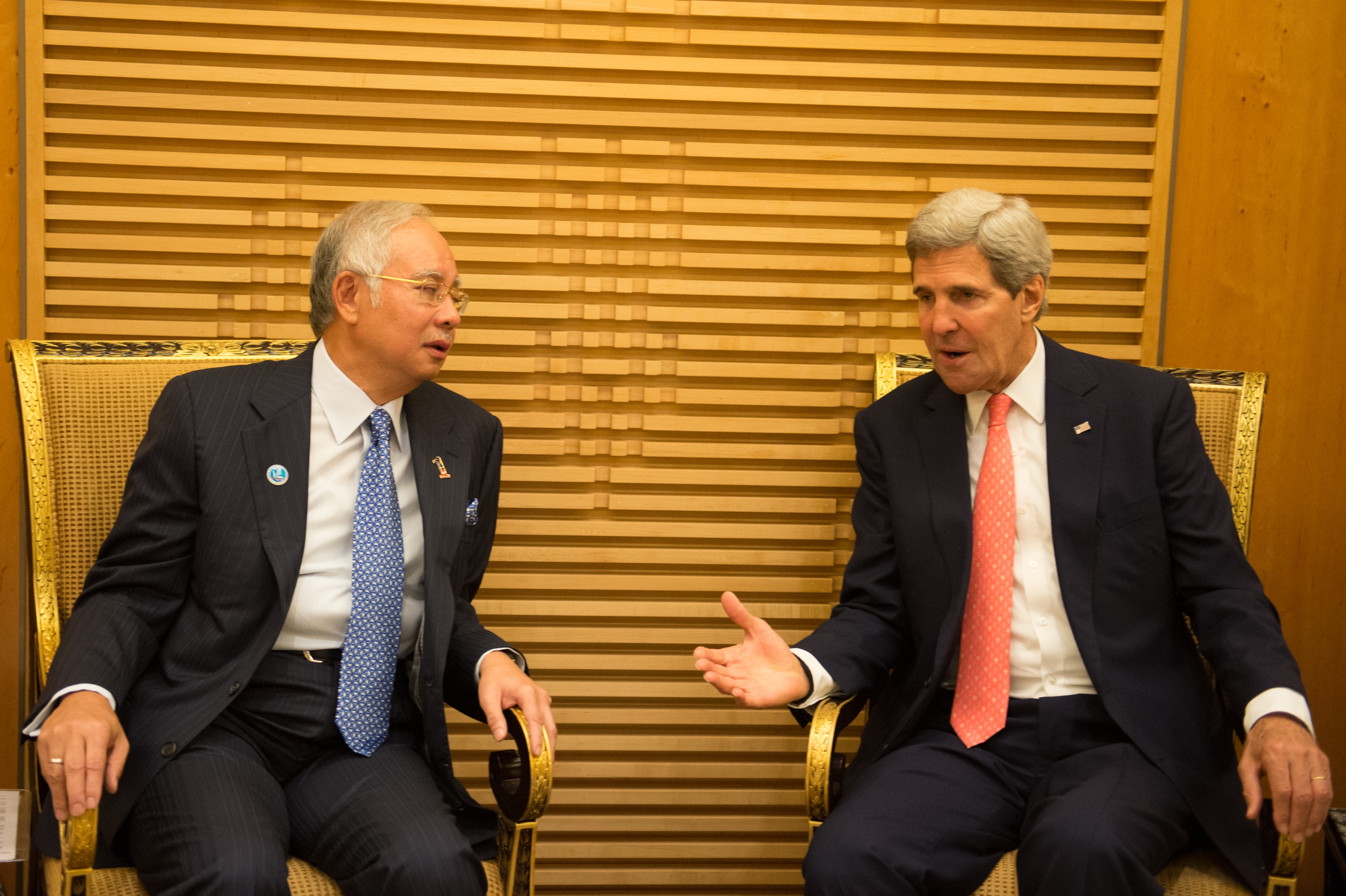 Kuala Lumpur, Malaysia (October 11, 2013) U.S. Secretary of State John Kerry meets Malaysia's Prime Minister Datuk Seri Najib Tun Razak for their bilateral meeting. [State Department photo by William Ng/Public Domain]